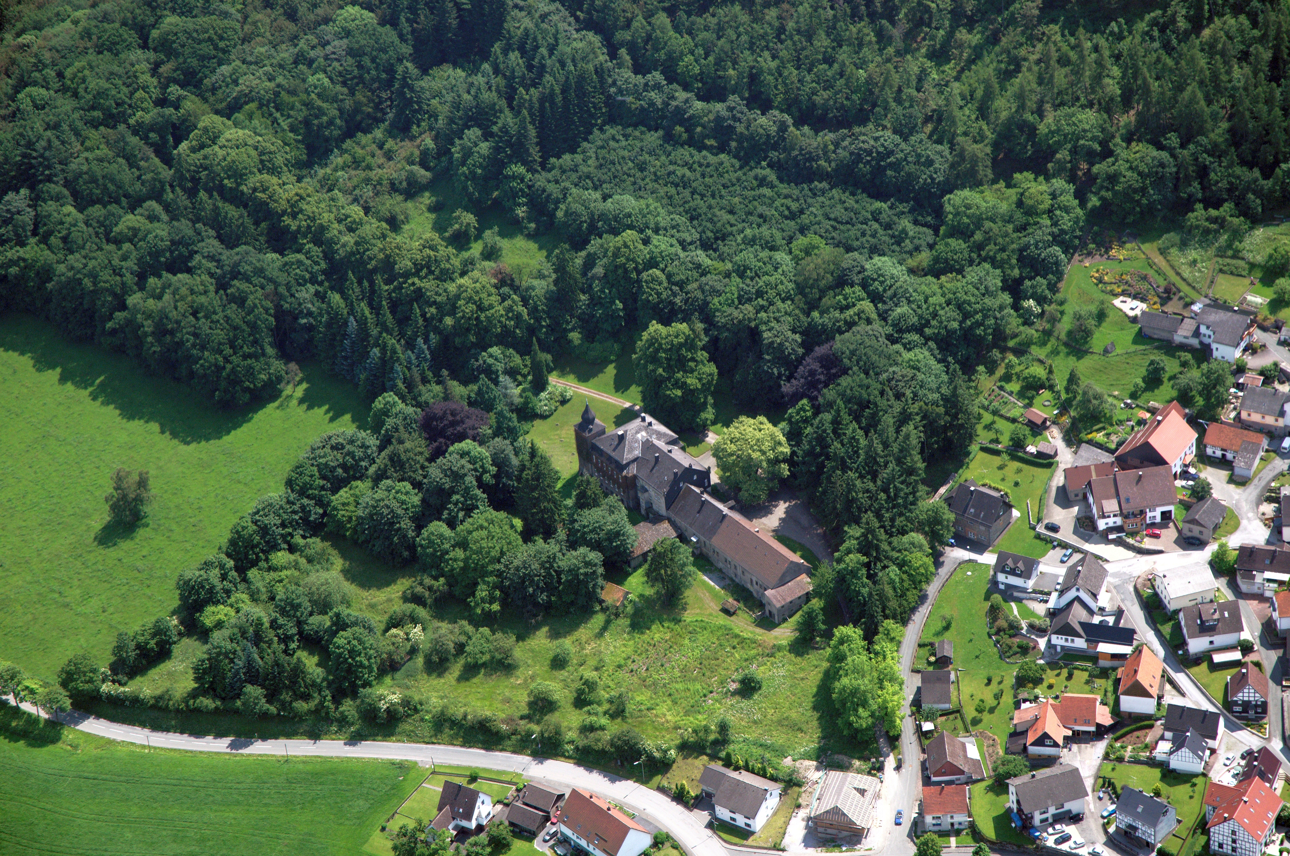 Fotoflug Sauerland-Ost - Marsberg, Ortsteil Padberg mit Schloss Padberg The making of this document was supported by the Community-Budget of Wikimedia Germany.